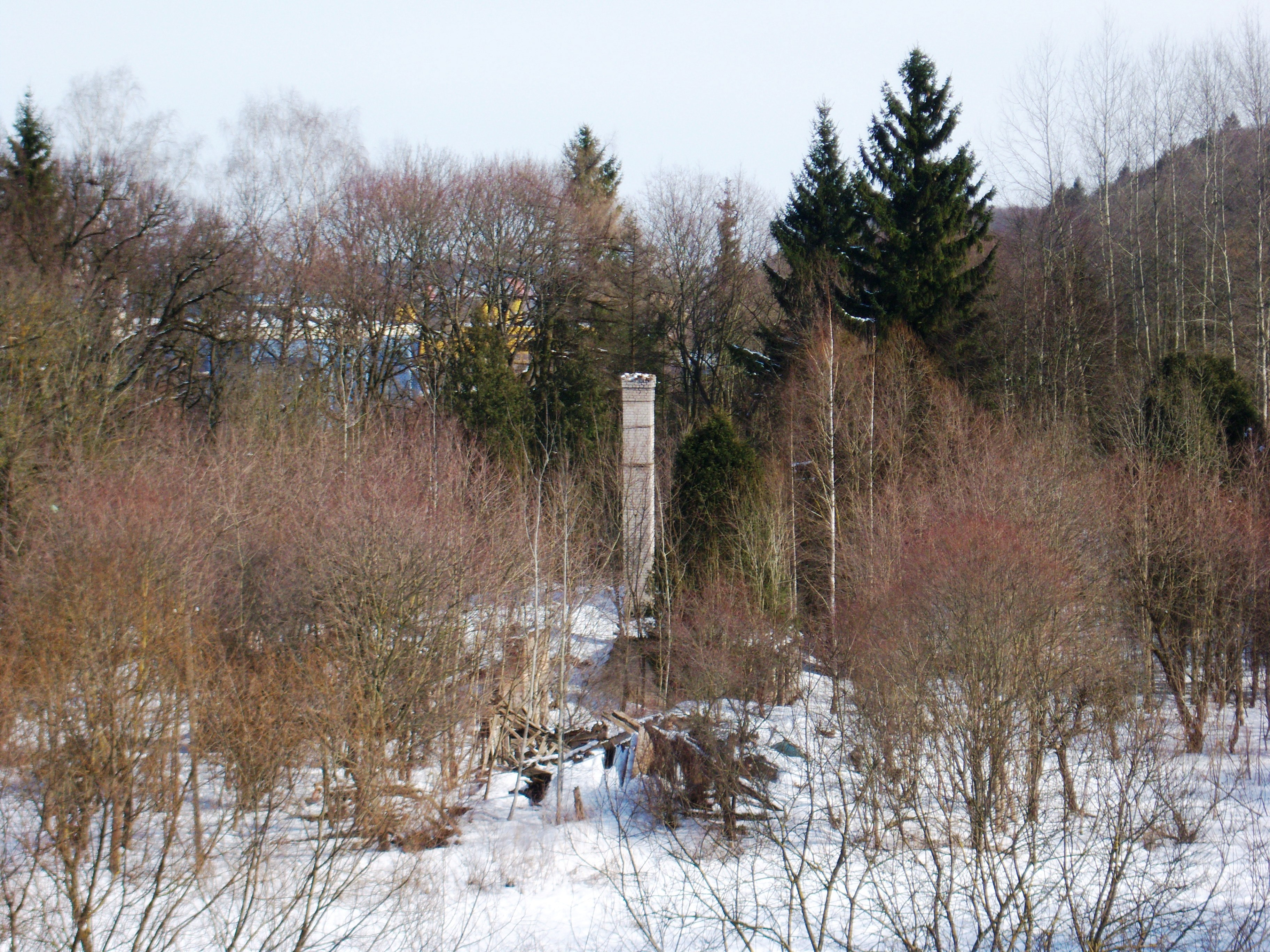 Former Marvos manor,Kaunas. Lithuania